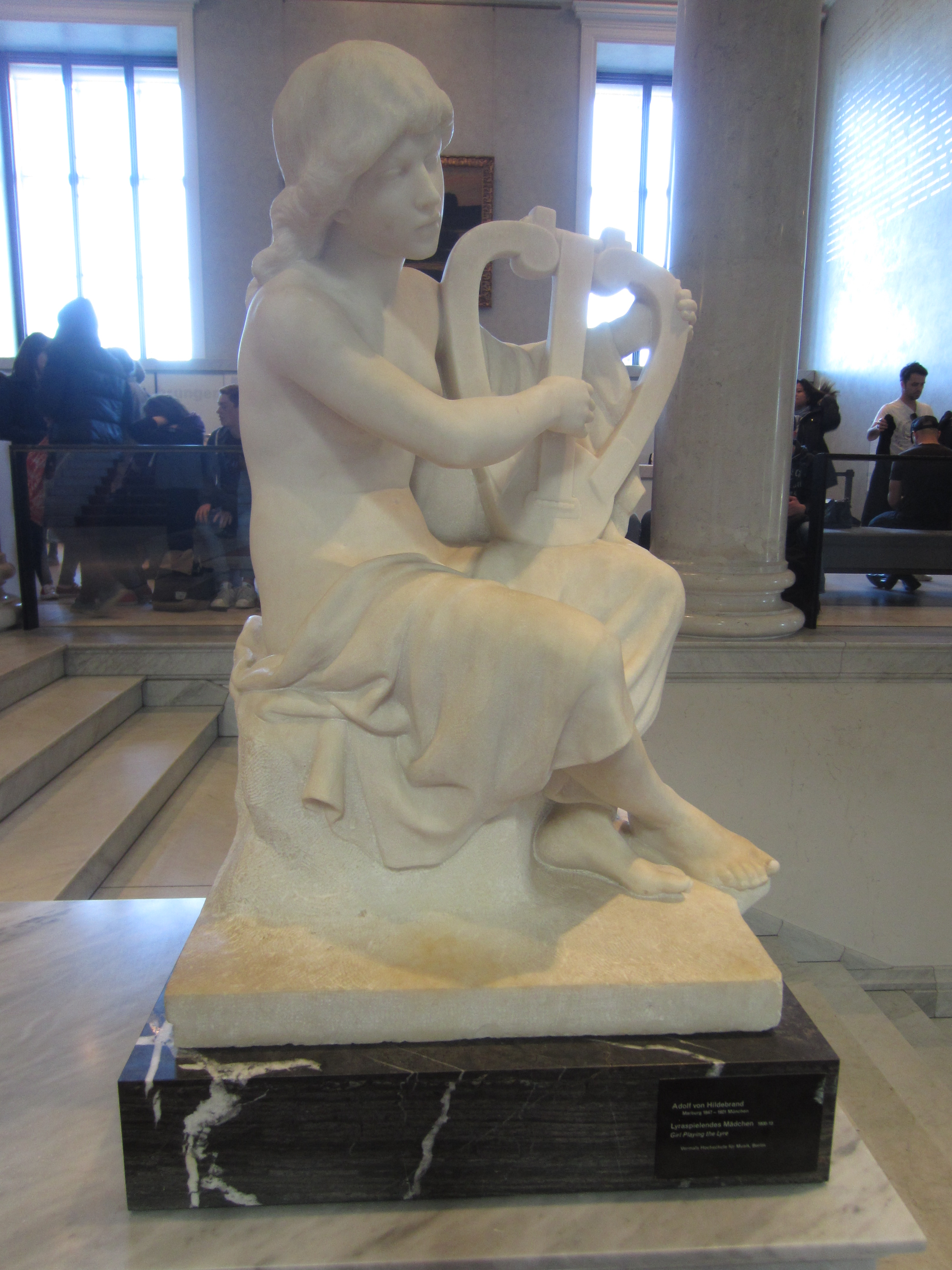 Berlin, Germany (April 2016)